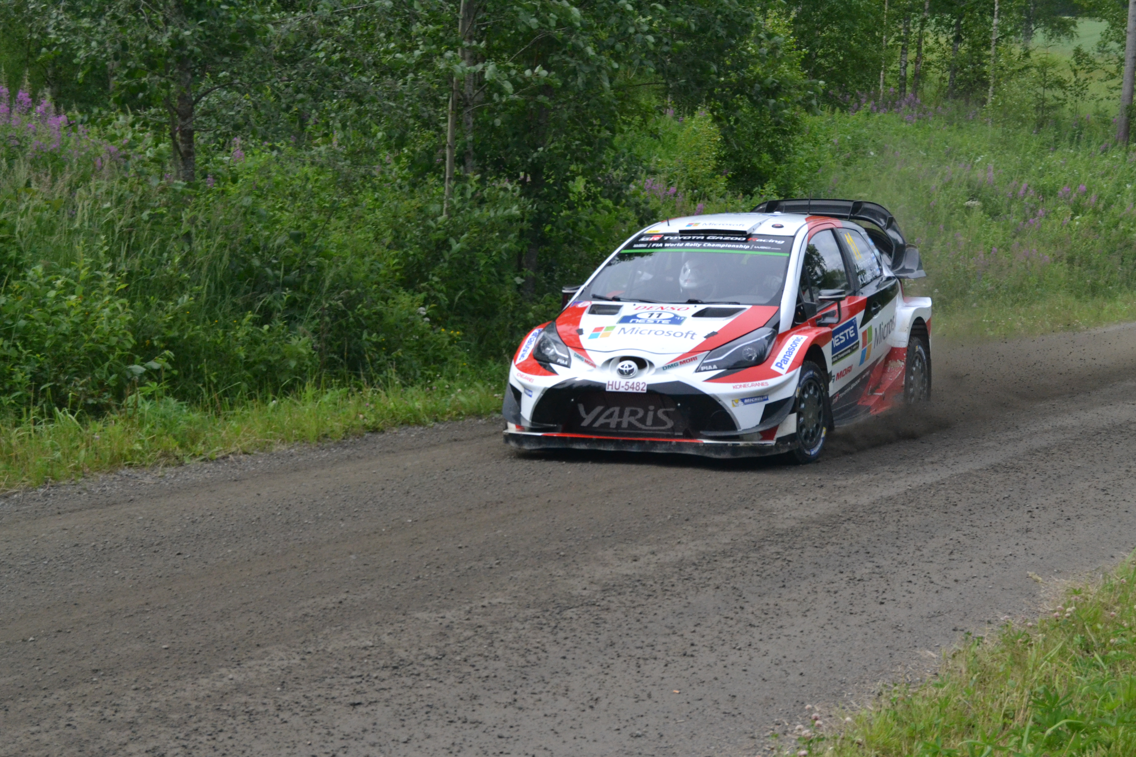 Juho Hänninen at second Saalahti stage at Rally Finland 2017